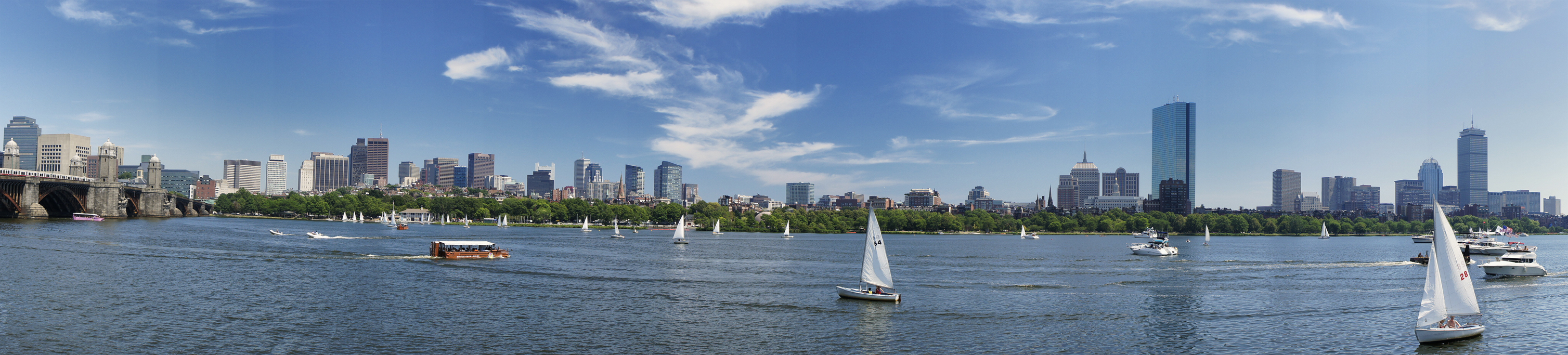 Boston skyline from Cambridge in July 2010